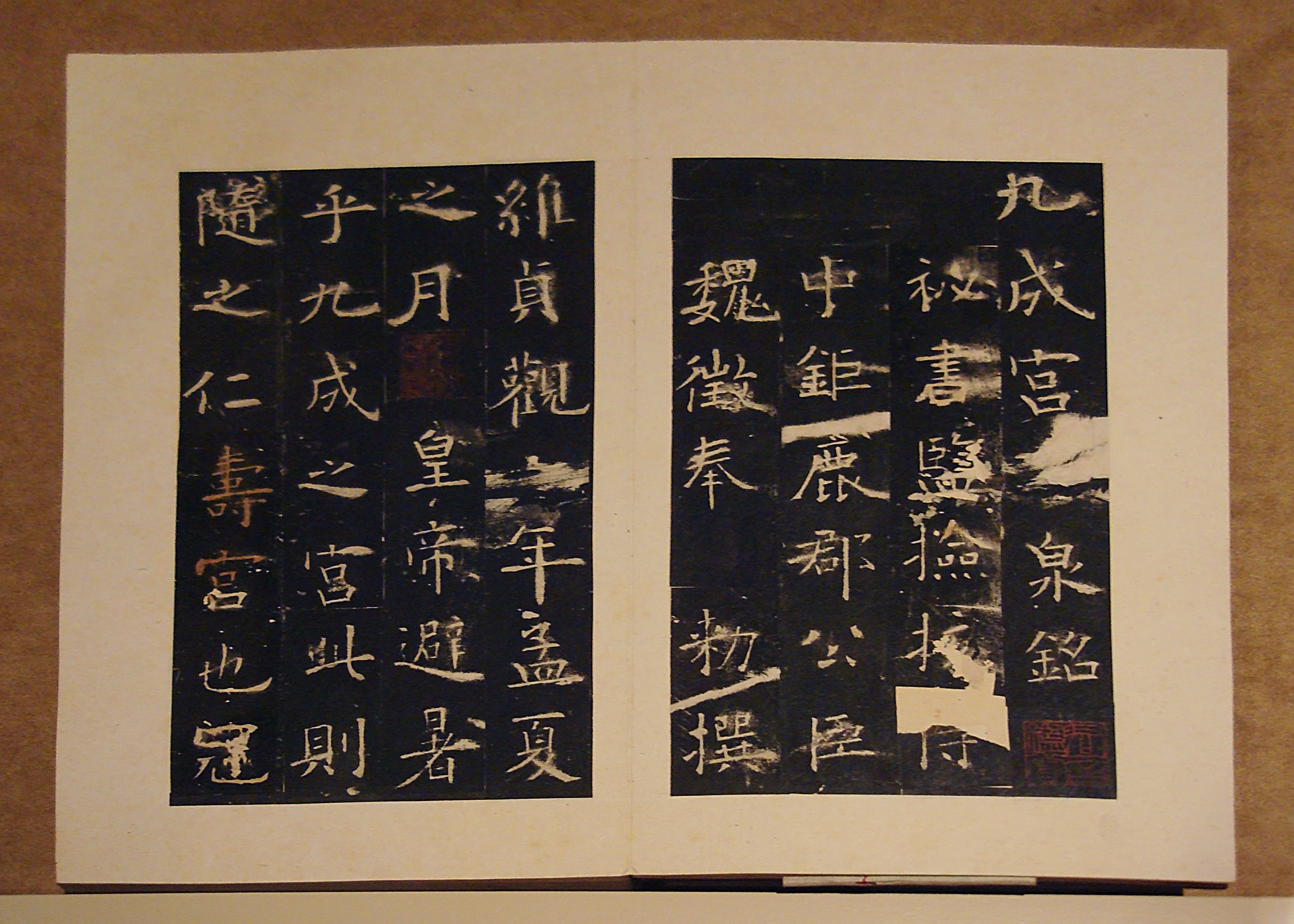 Stone rubbing from Jiu Cheng Palace, written by Ouyang Xun. Original: Carved during the Tang Dynasty in A.D. 632 Rubbing: Copied during the Ming Dynasty Tang Emperor Taizong discovered a sweet, refreshing spring while visiting his summer palace. He ordered his Prime Minister Wei Zheng to compose an essay about the event, and asked Ouyang Xun to undertake the calligraphy. A famous calligrapher - particularly in standard script - Ou profoundly influenced the calligraphy of succeeding generations.